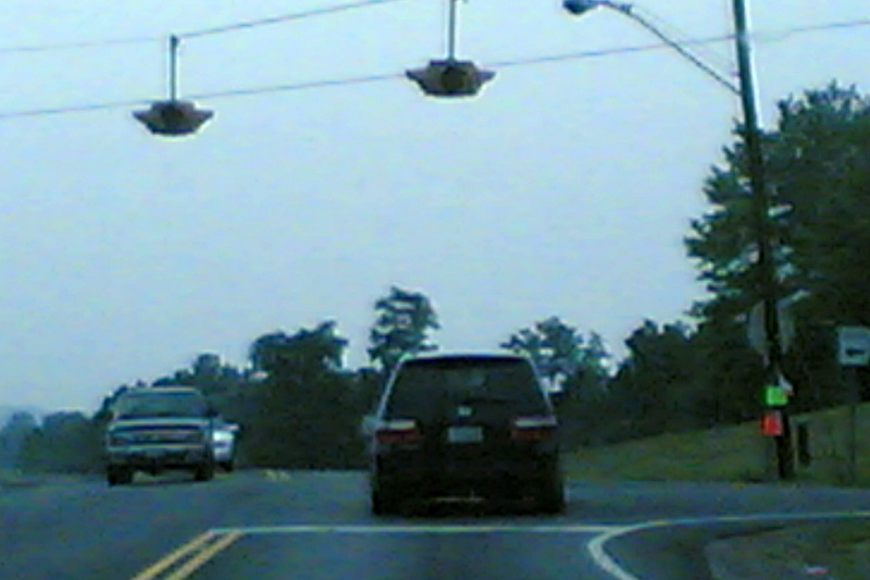 Intersection of Ohio State Routes 335 & 139 in Minford, Scioto County, Ohio, United States